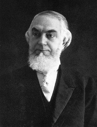 C.T. Russell